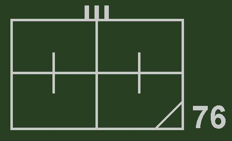 Tactical sign of Lazarettregiment 76 (Res), Bundeswehr